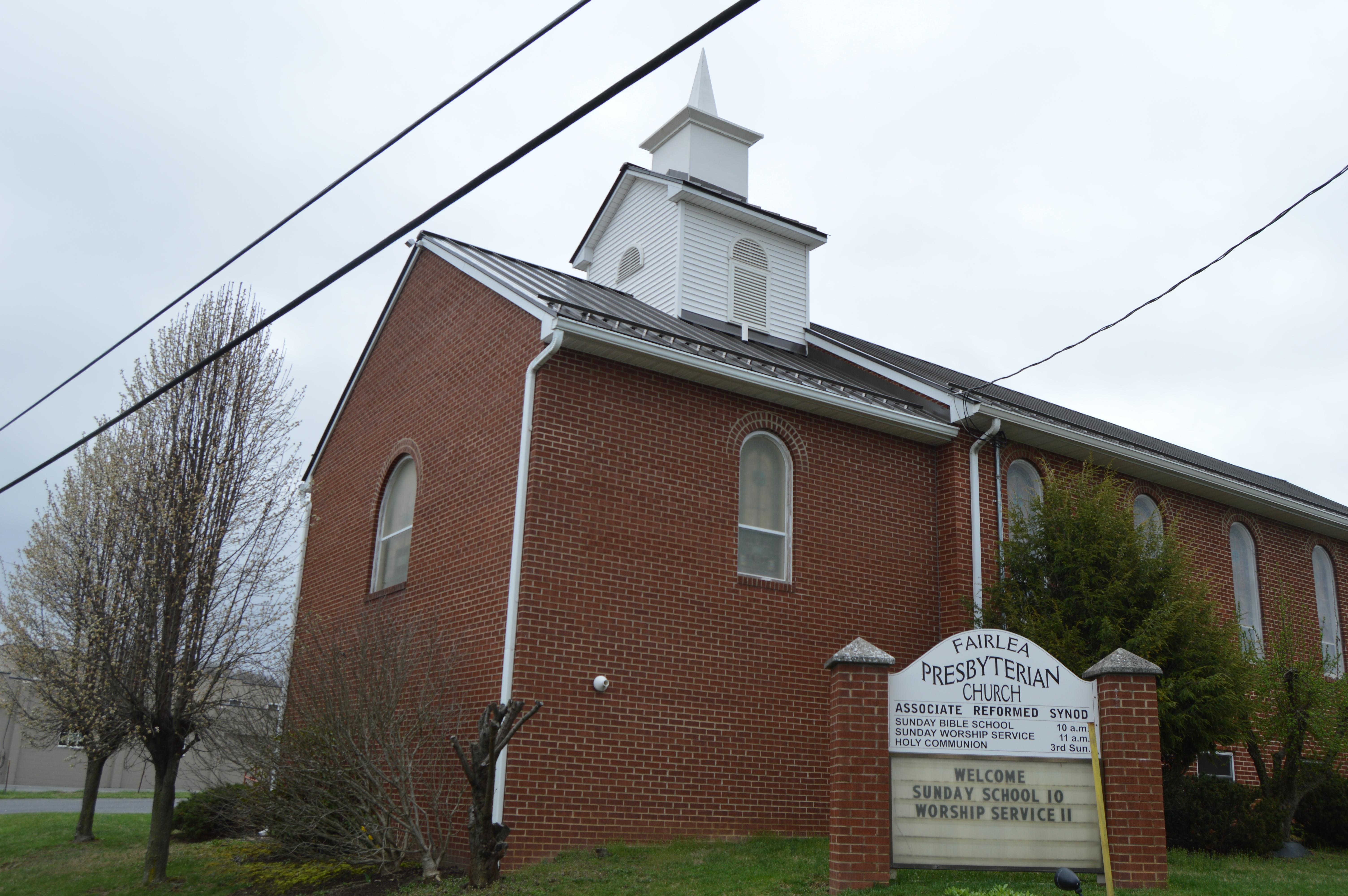 Front and southwestern side of Fairlea Presbyterian Church (ARPC), located at 9364 U.S. Route 219 in Fairlea, West Virginia, United States.